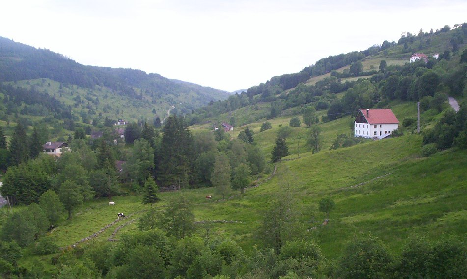 Chajoux valley, La Bresse, Vosges, France.